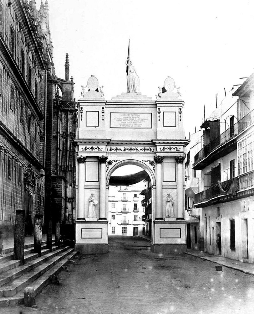 One of the triumphal archs in Seville for the arrival of Queen Isabel II.